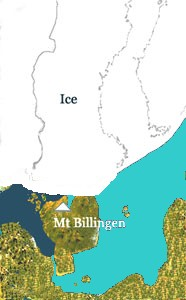 The Baltic Ice Lake, approximately 11 600 years ago.